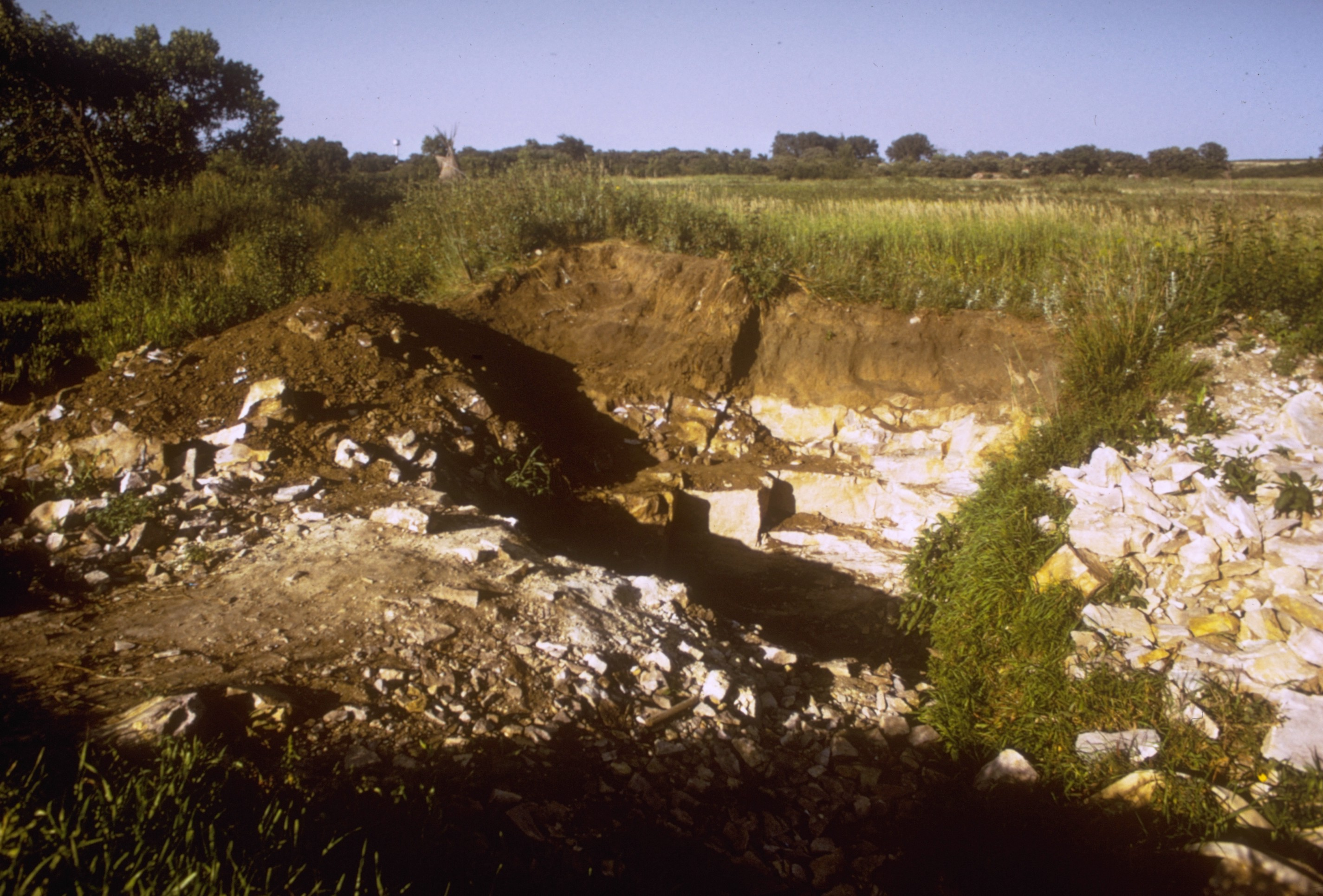 Quarry in Pipestone National Monument, Minnesota, USA